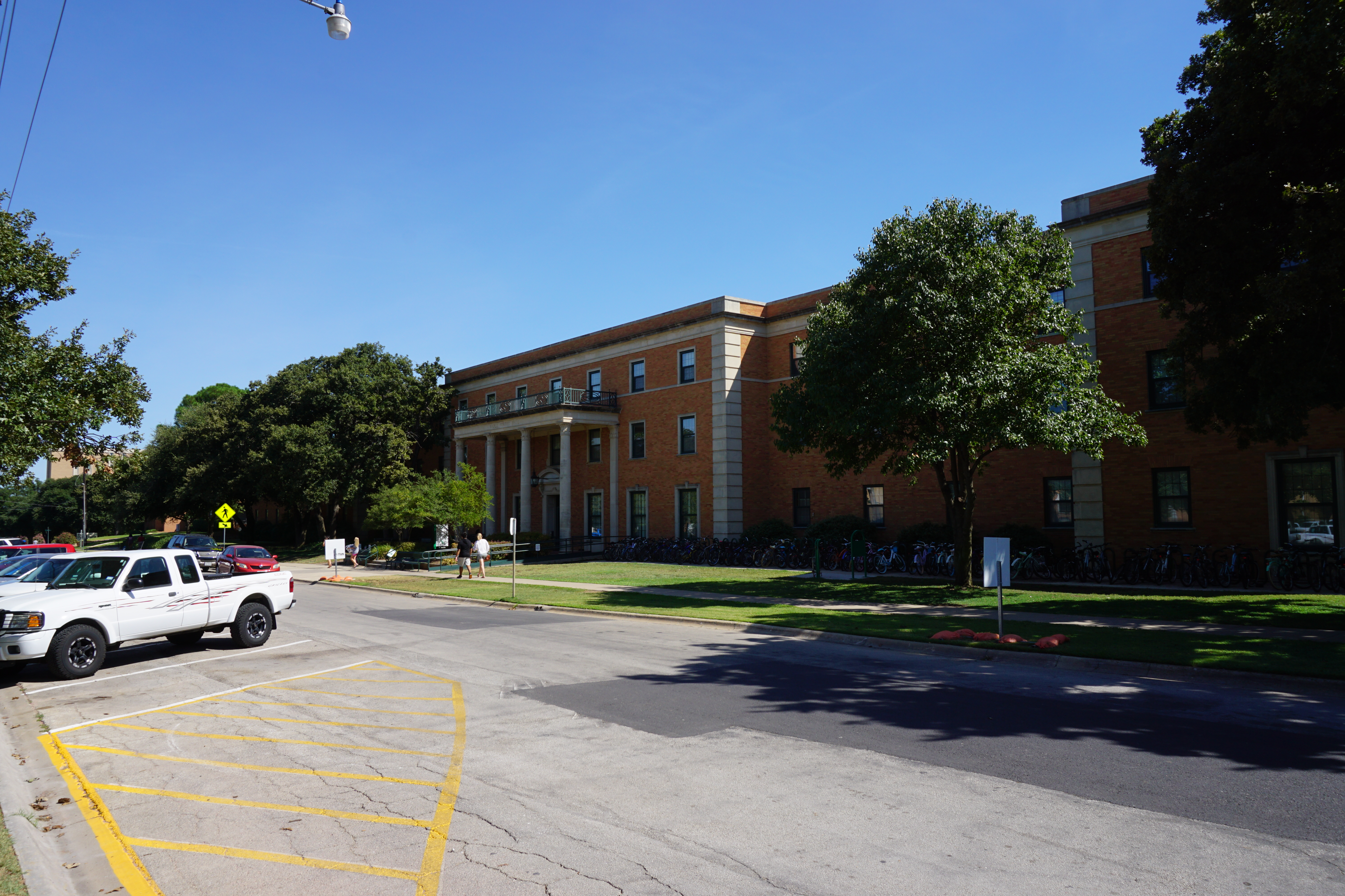 Maple Street Hall on the campus of the University of North Texas in Denton, Texas (United States).